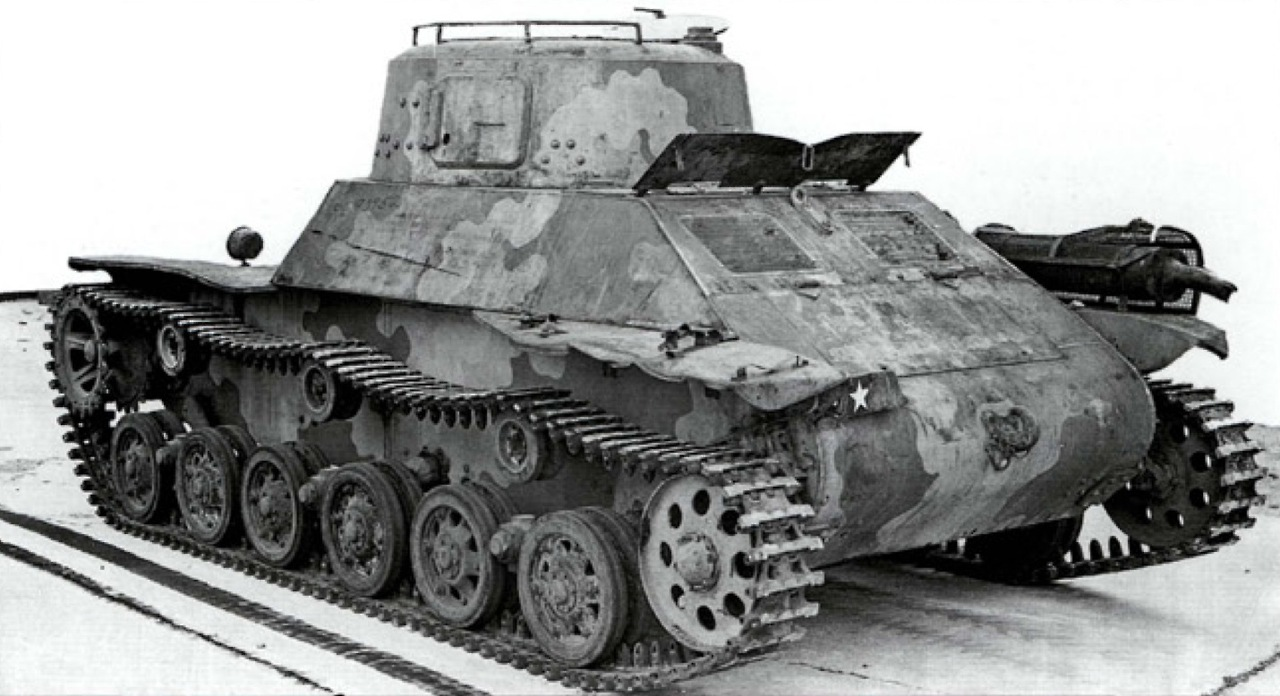 Japanese Type 2 Ke-To light tank of the Pacific War